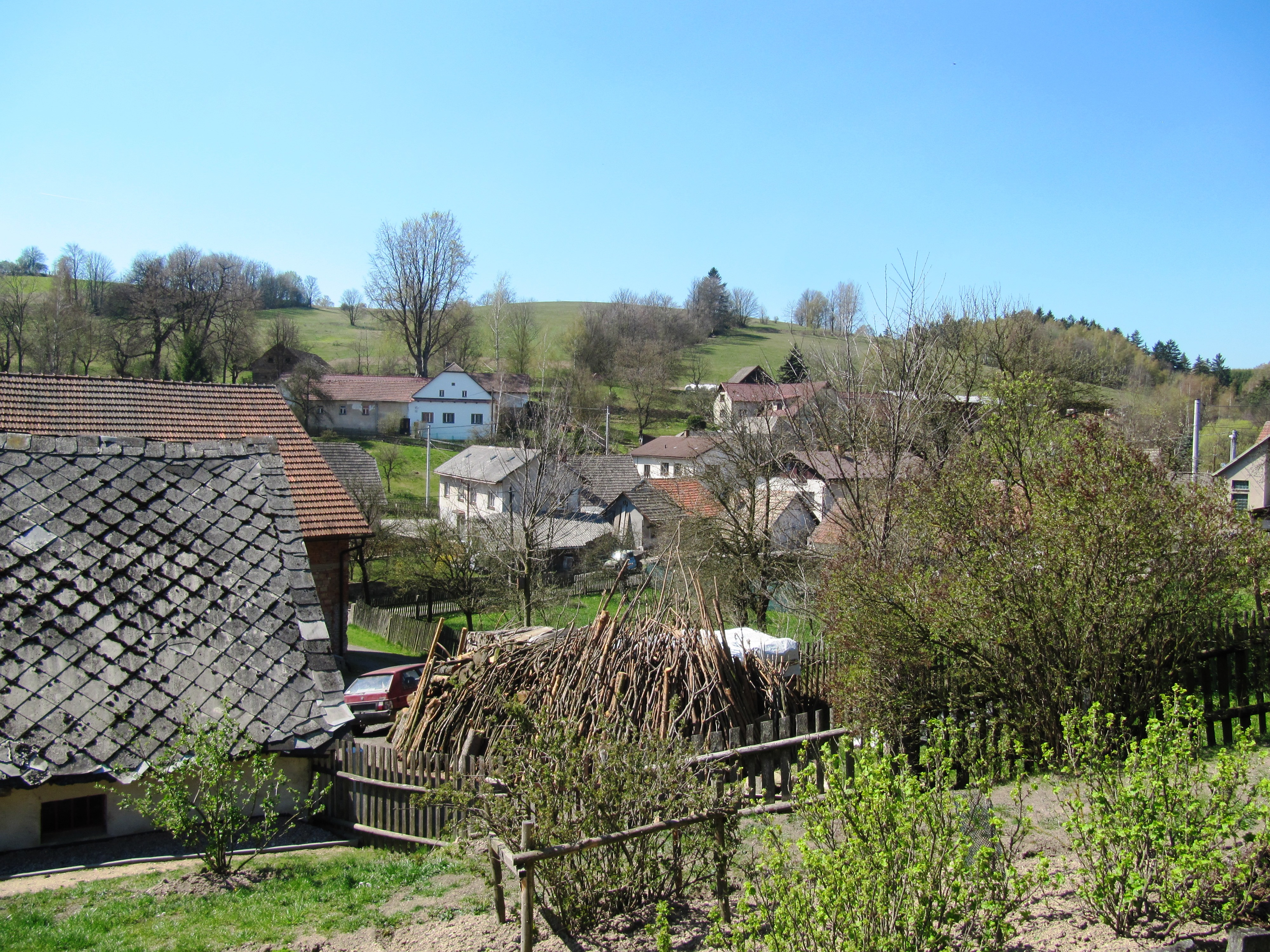 Velké Janovice, Žďár nad Sázavou District, Czechia.